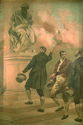 depicting Manuel Fernandes Tomáz, Manuel Borges Carneiro, and Joaquim António de Aguiar (parlamentarians of the late 1820's.)